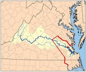 Self-Made from Jamesrivermap.jpg, red line shows boundary between Virginia Colony and Tributary Indian tribes as established by Treaty of 1646 concluding Second Anglo-Powhatan War. Red dot on river shows Jamestown, capital of Virginia Colony.